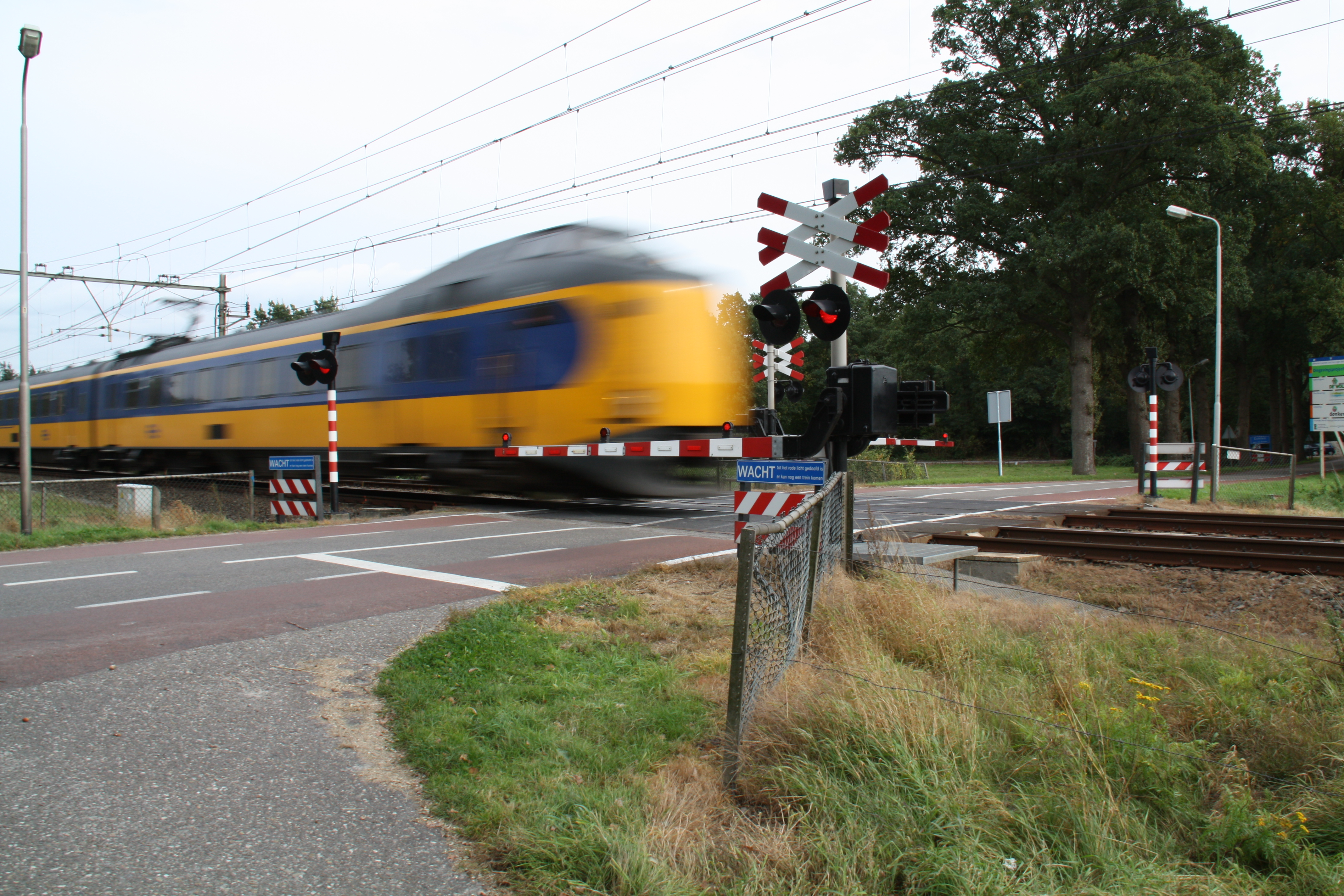 Level crossing